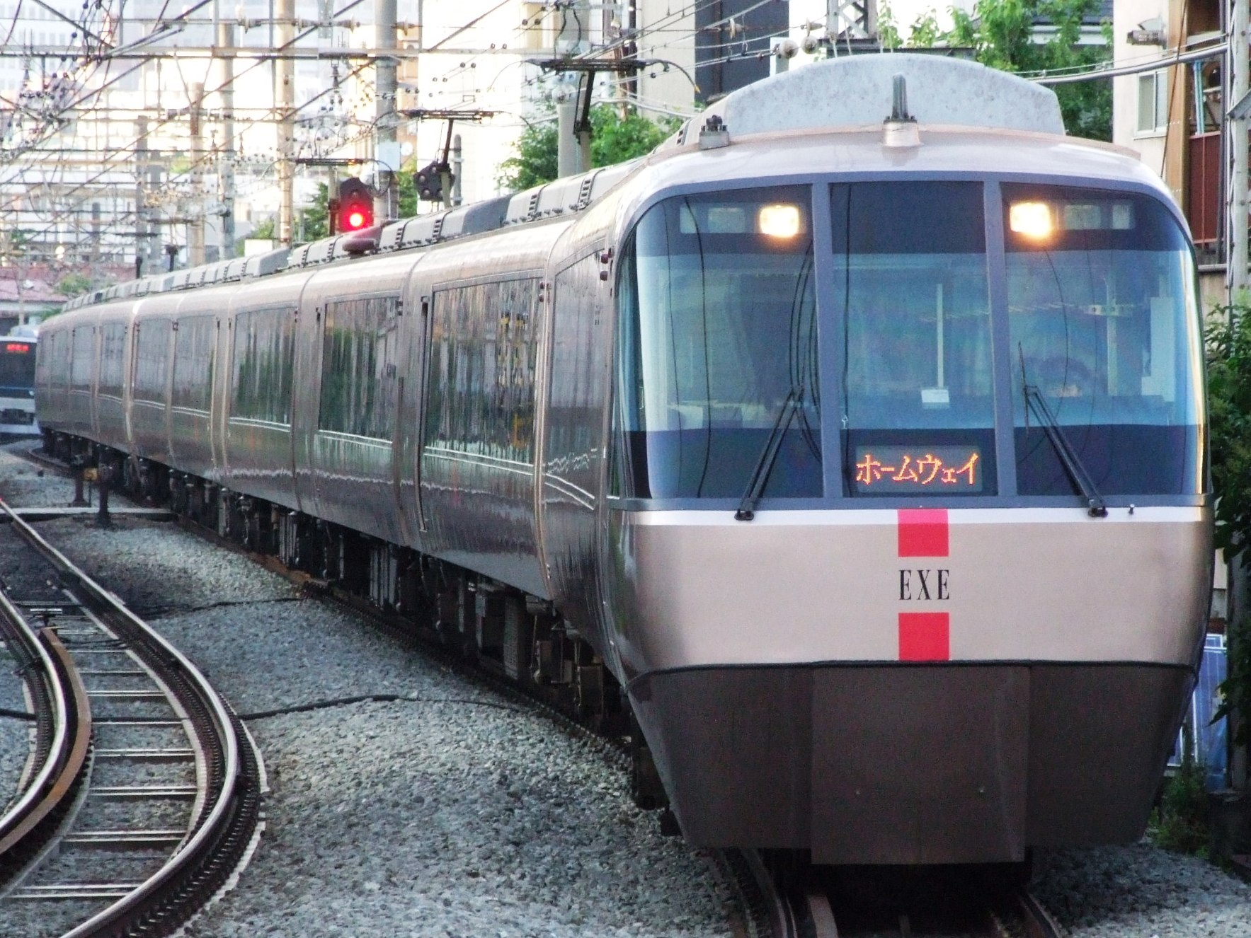 LTD Exp.〝Homeway〟of Series 30000 -Odakyu RomanceCar EXE-,Odakyu Electric Railwey,Japan